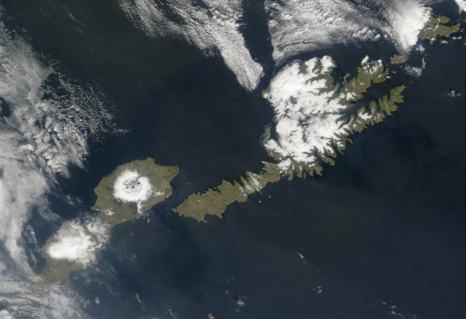 Satellite picture of Umnak and Unalaska Islands in the Aleutian Chain